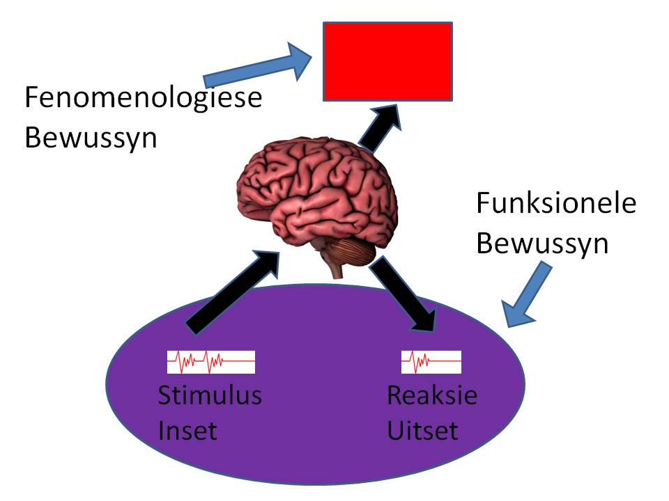 The P- consciousness (phenomenal consciousness) and the A- consciousness (access / functional consciousness).